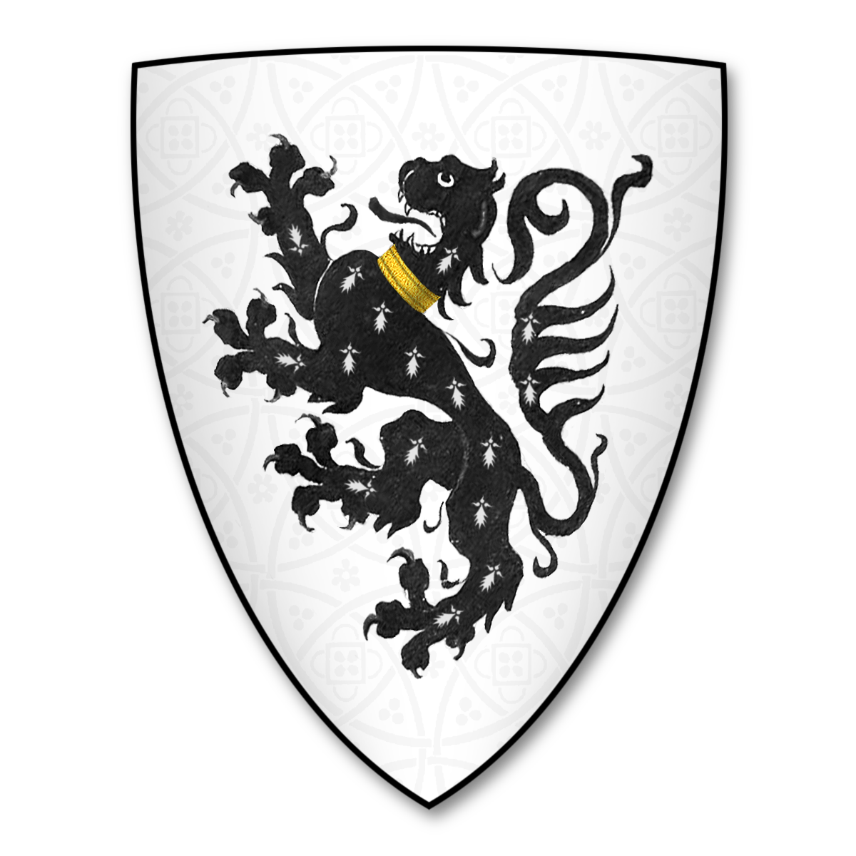 Armorial Bearings of the GWILLYM family of Wellington, of Trippenkennet, and of Whitchurch, Herefs. William Gwillym was sheriff of the county in 1692. Arms: Argent, a lion rampant ermines, collared or. Strong, George (1848) The Heraldry of Herefordshire: Being a Collection of the Armorial Bearings of Families Which Have Been Seated in the County at Various Periods Down to the Present Time., London: Churton Press